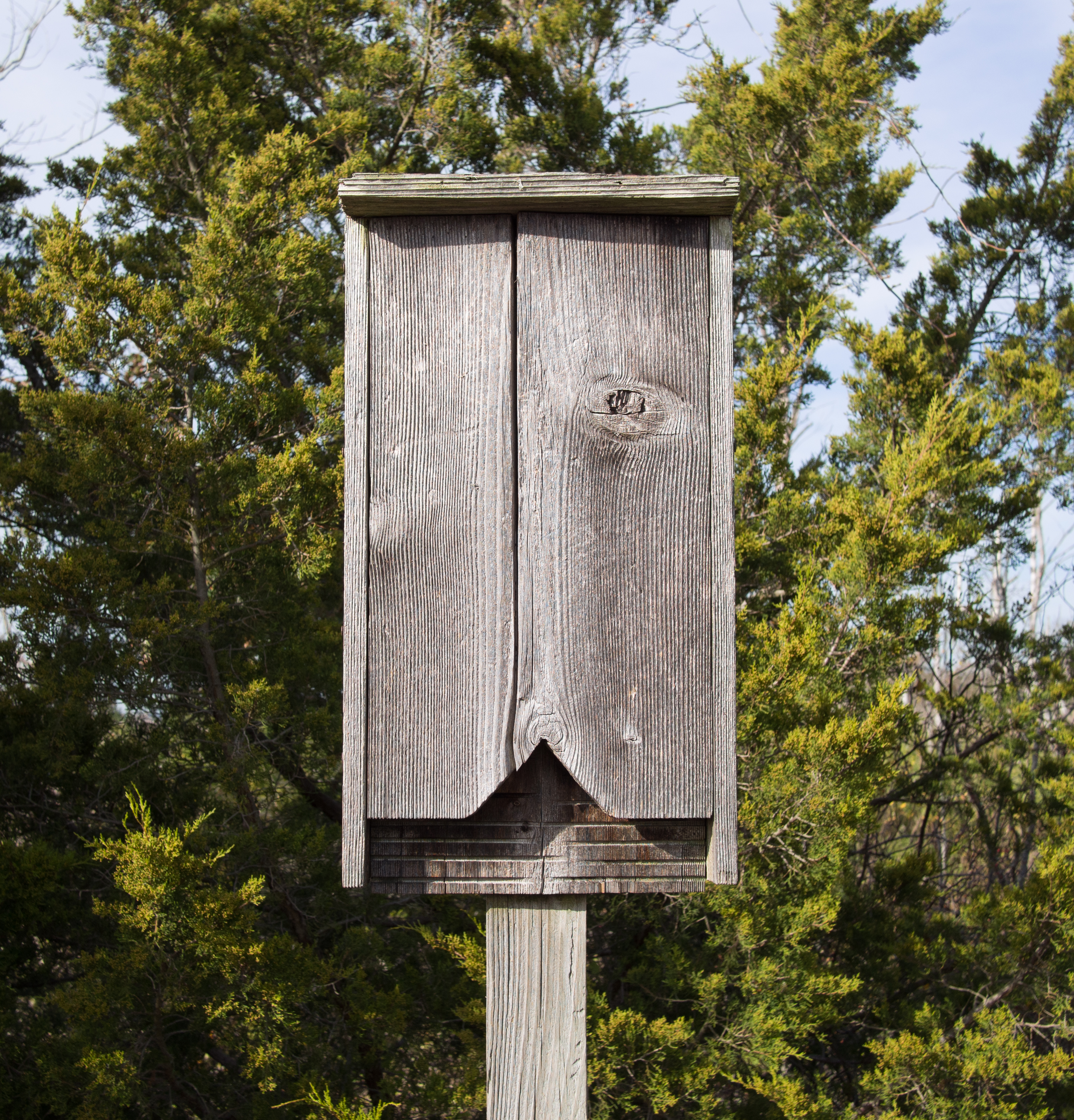 A bat box in the Jamaica Bay Wildlife Refuge. Broad Channel, Queens, New York.